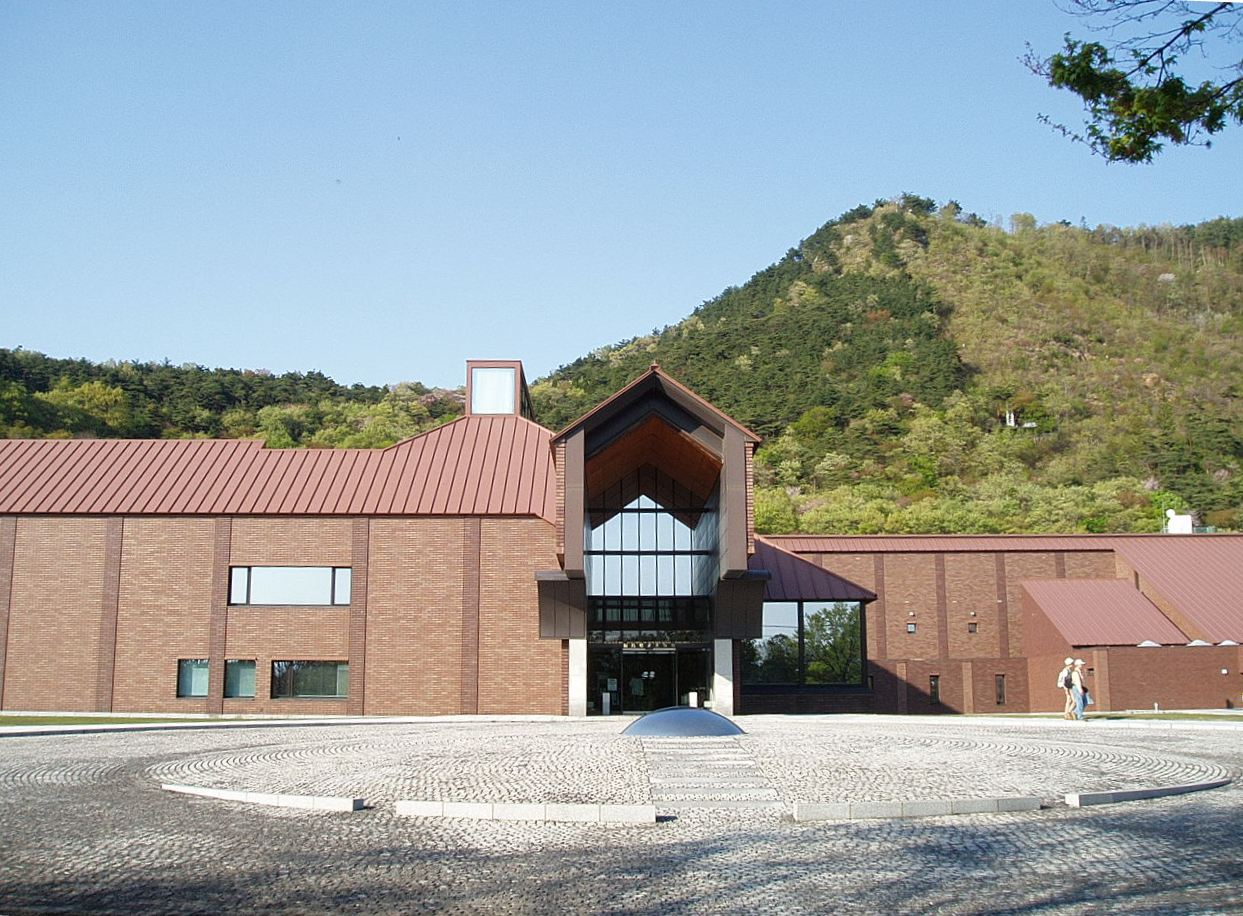 Fukushima Prefectural Museum of Art. Located in Moriai, Fukushima City, Fukushima Pref., Japan.